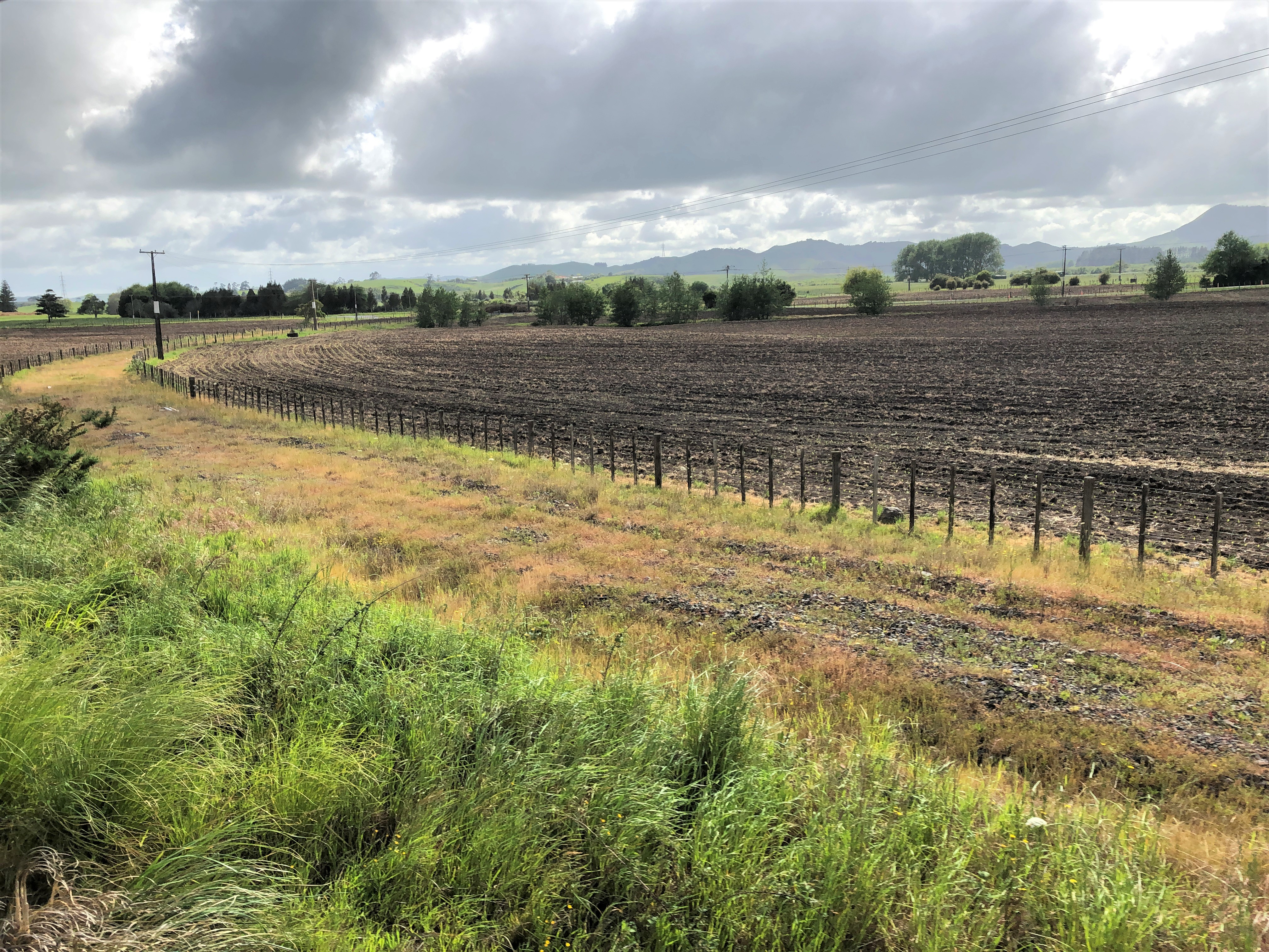 2019 view of Kimihia Branch from NIMT. The line was lifted in 2017 after closure of the coal mine